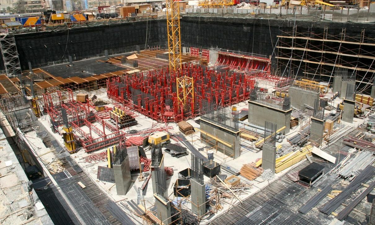 This is a photo showing the construction of The Torch located in Dubai Marina in Dubai, United Arab Emirates on 18 May 2007.